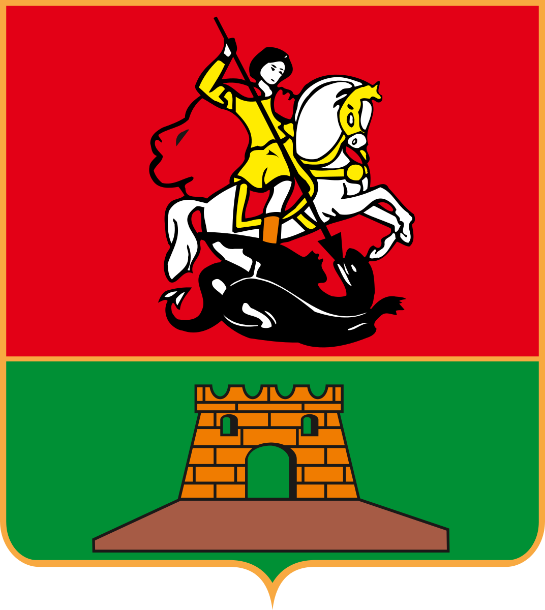 Georgievsk (Stavropol krai), coat of arms (1998)